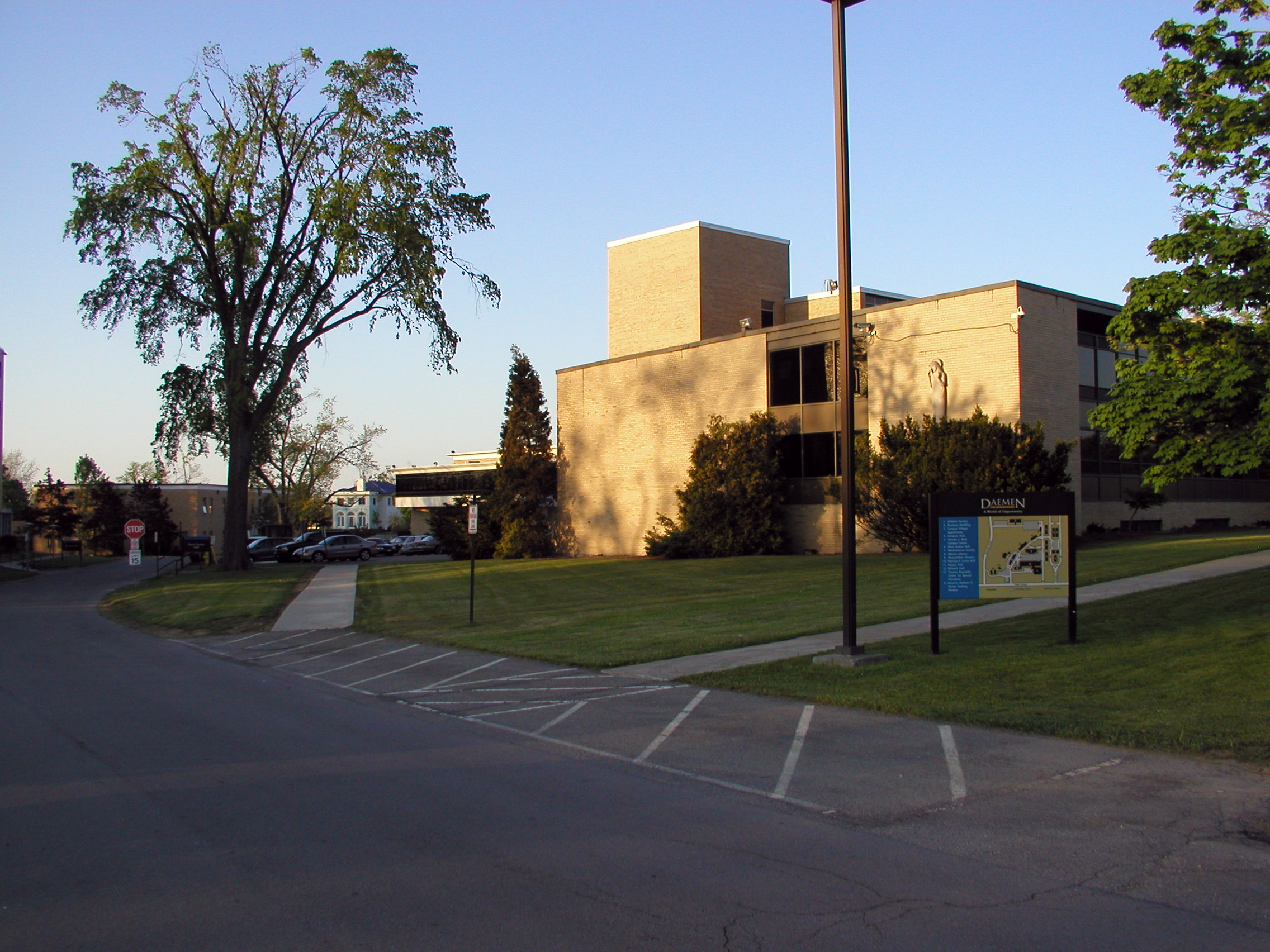 Daemen College located in Amherst, New York